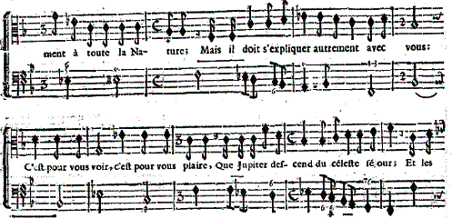 Isis, aria of Mercur, 1st act, by J. B. Lully